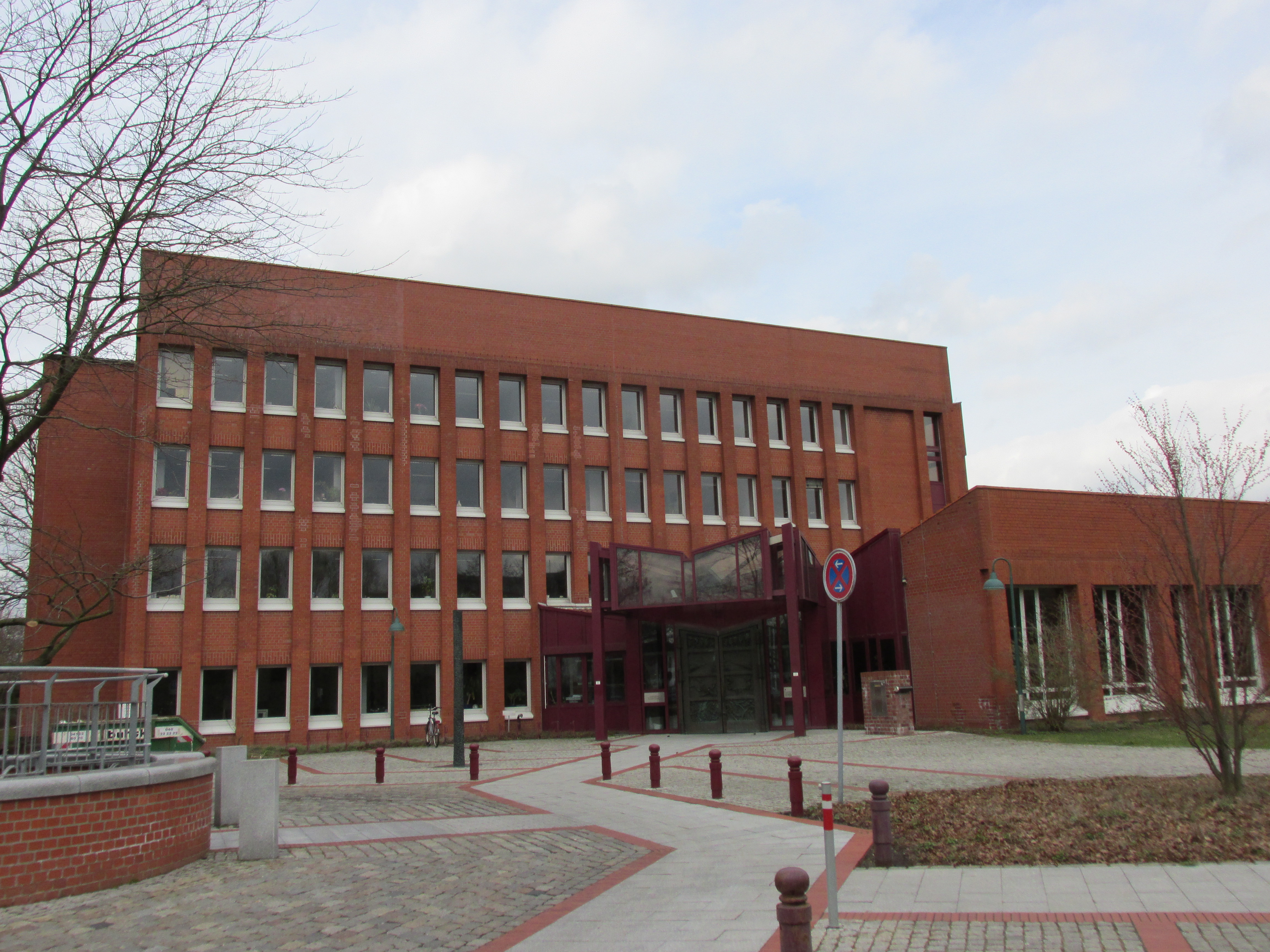 Courthouse Amtsgericht Norderstedt, Norderstedt, Germany